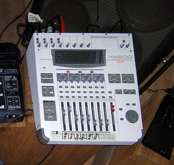 Fostex VM-200 (1999) - 8tr Digital Recording Mixer with ASP effects, S/PDIF and ADAT Optical I/O, and